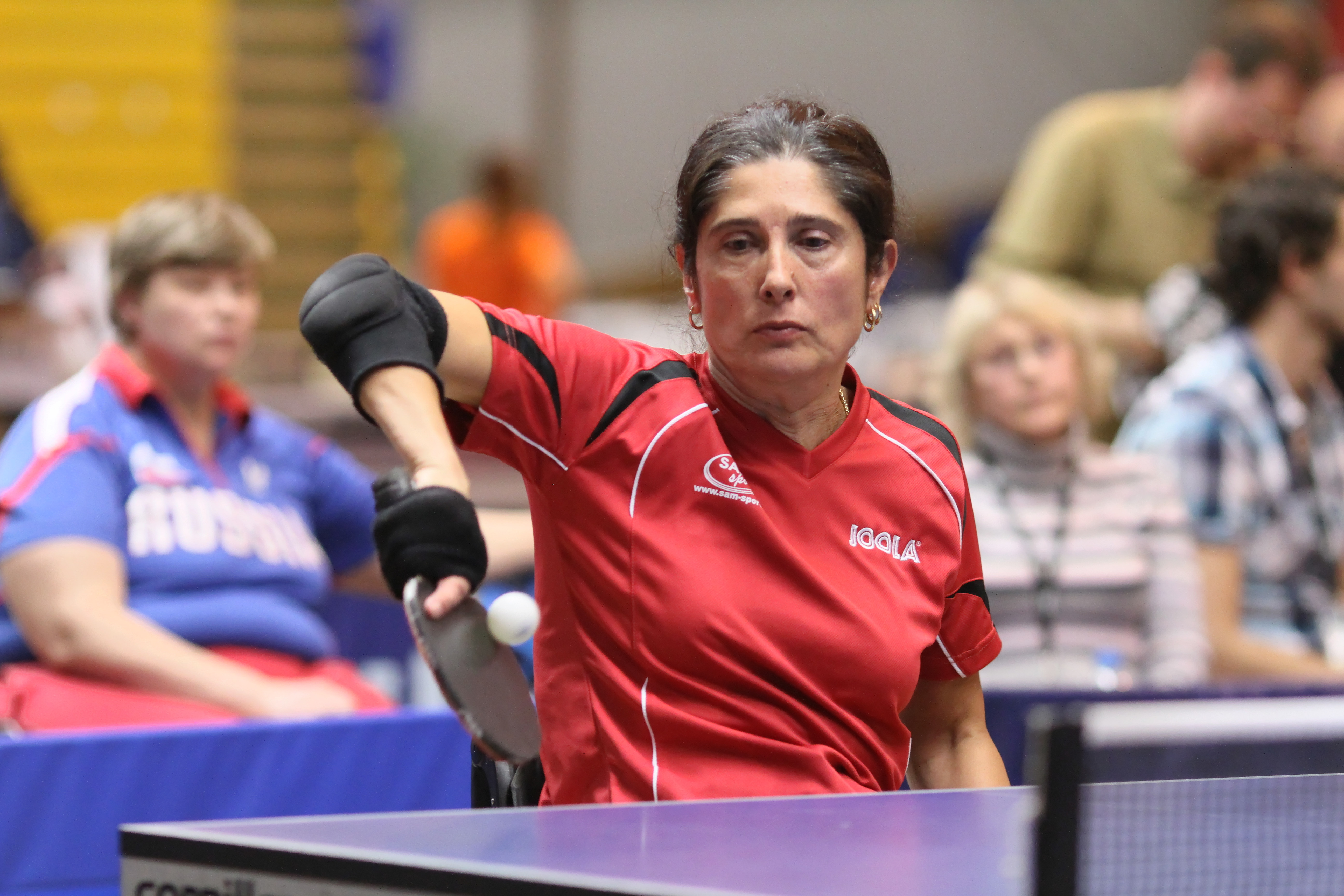 CLOT Geneviève (FRA) IMG_5619_DxO